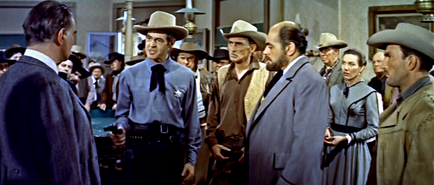 This image is a screenshot from a public domain trailer for the 1956 film, The Proud Ones . Trailers for movies released before 1964 are in the Public Domain because they were never separately copyrighted.